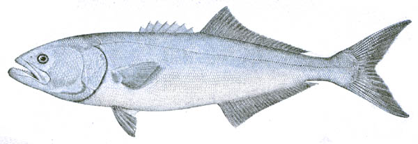 Bluefish (Pomatomus saltatrix). Altered and prepared plate from the NOAA Photo Library: Image ID: figb0436, Historic NMFS Collection Copyright: Restrictions for Using NOAA Images Most NOAA photos and slides are in the public domain and CANNOT be copyrighted. Although at present, no fee is charged for using the photos credit MUST be given to the National Oceanic and Atmospheric Administration/Department of Commerce unless otherwise instructed to give credit to the photographer or other source. Bluefish.jpg